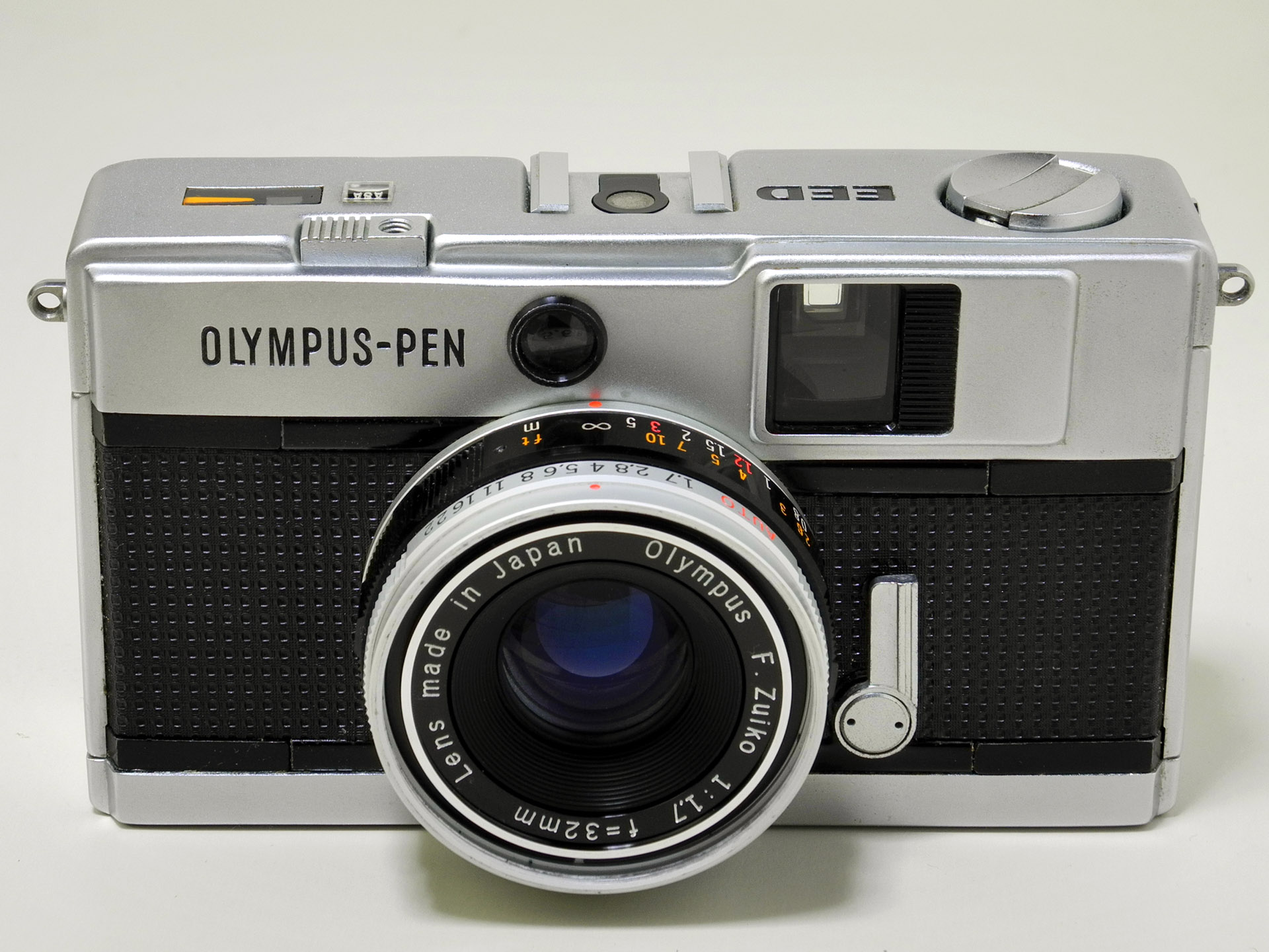 Olympus Pen EED